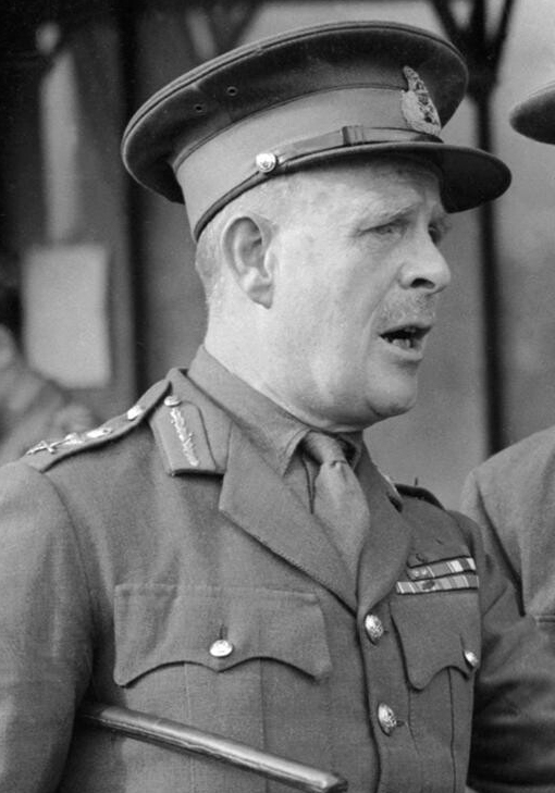 British Generals 1939-1945 Field Marshal Viscount Gort (1886 - 1946): General Viscount Gort, Commander in Chief BEF, outside the Hotel Moderne, Arras.